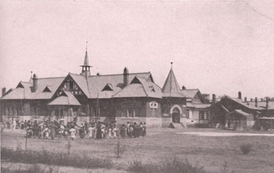 Mukden Kasuga Primary School (Initial building in 1908). This is the temporary place of the primary school. Later in 1908 it moved to Kasuga Cho.